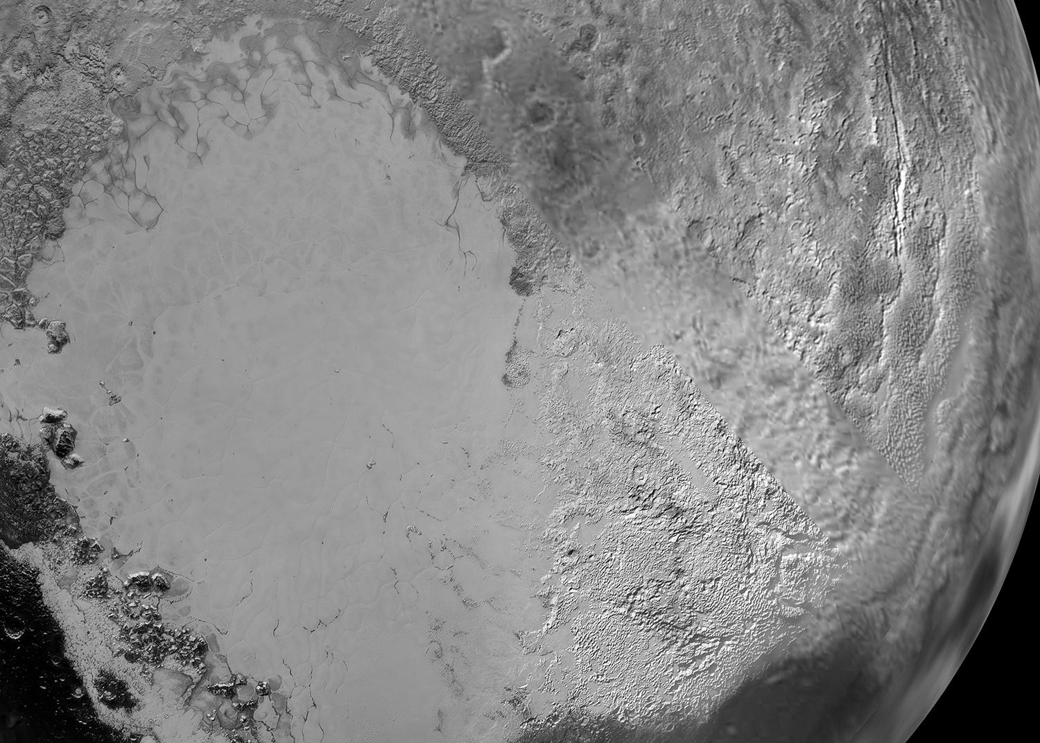 PIA19945: Sputnik Planum in Detail Sputnik Planum is the informal name of the smooth, light-bulb shaped region on the left of this composite of several New Horizons images of Pluto. The brilliantly white upland region to the right may be coated by nitrogen ice that has been transported through the atmosphere from the surface of Sputnik Planum, and deposited on these uplands. The box shows the location of the glacier detail images at PIA19944 and PIA19943. The Johns Hopkins University Applied Physics Laboratory in Laurel, Maryland, designed, built, and operates the New Horizons spacecraft, and manages the mission for NASA's Science Mission Directorate. The Southwest Research Institute, based in San Antonio, leads the science team, payload operations and encounter science planning. New Horizons is part of the New Frontiers Program managed by NASA's Marshall Space Flight Center in Huntsville, Alabama.